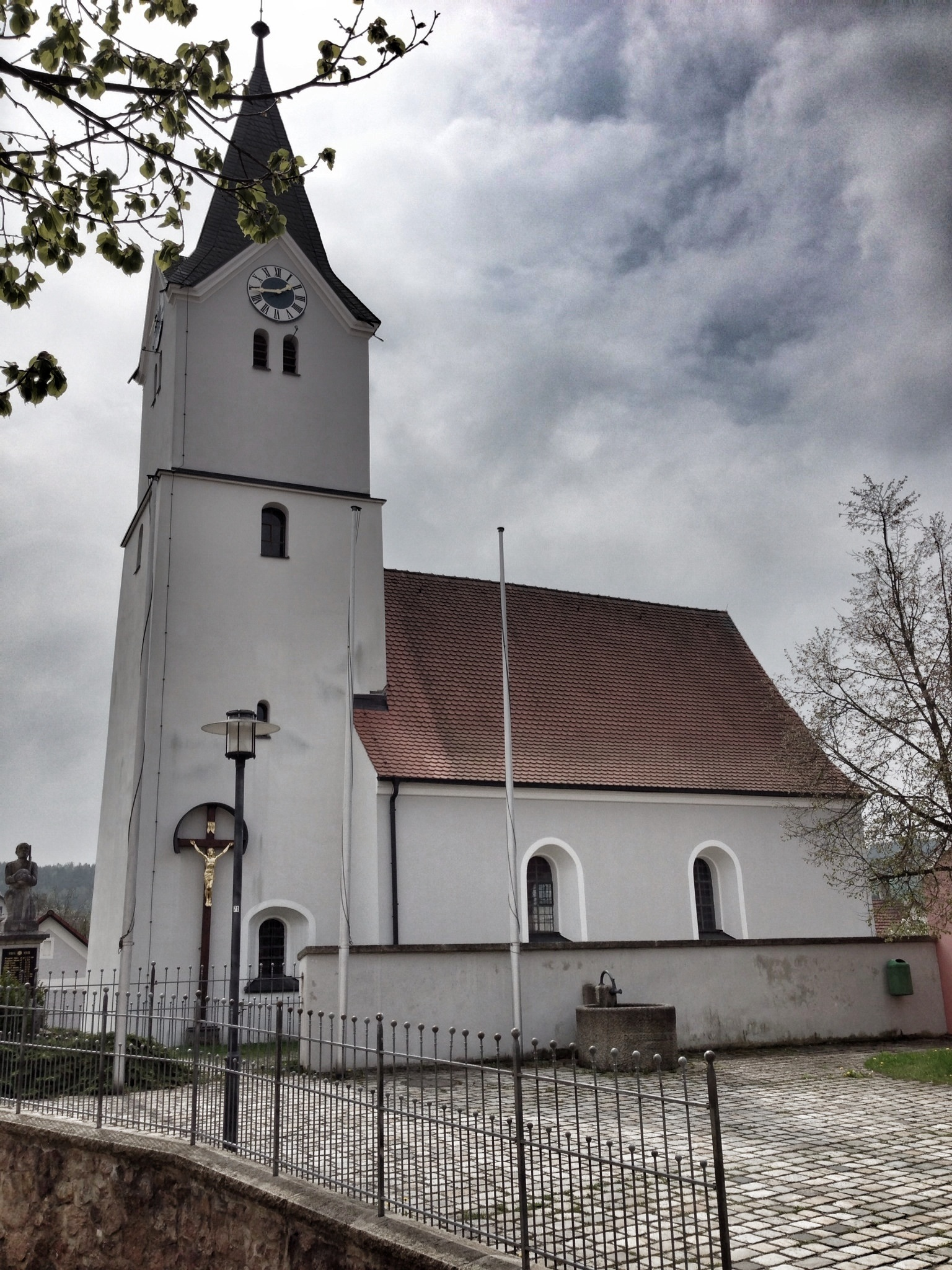 Church Sankt Nikolaus in Trisching, Schmidgaden, Germany